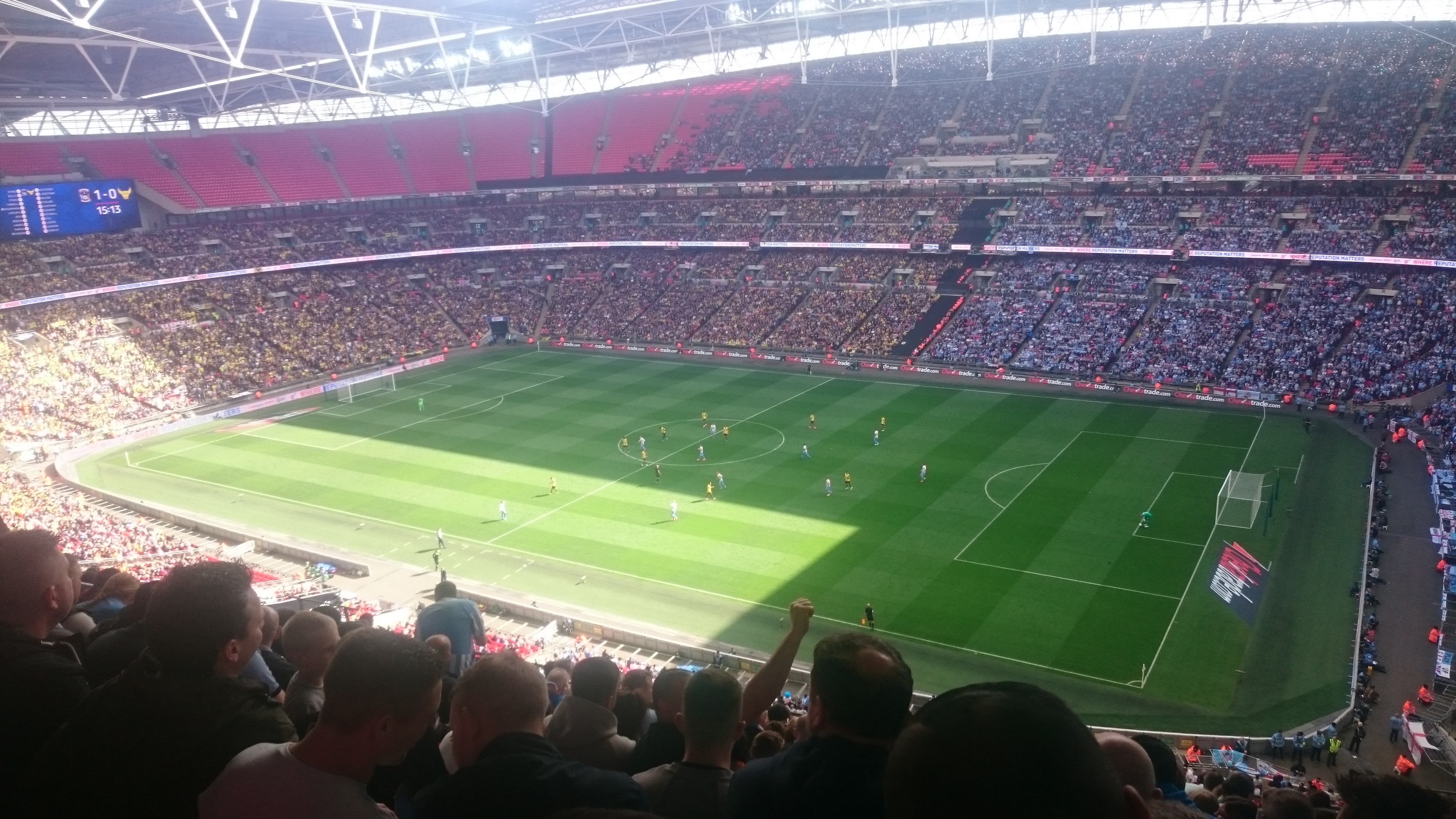 Inside Wembley stadium during the EFL Trophy final 2017 between Coventry City and Oxford United